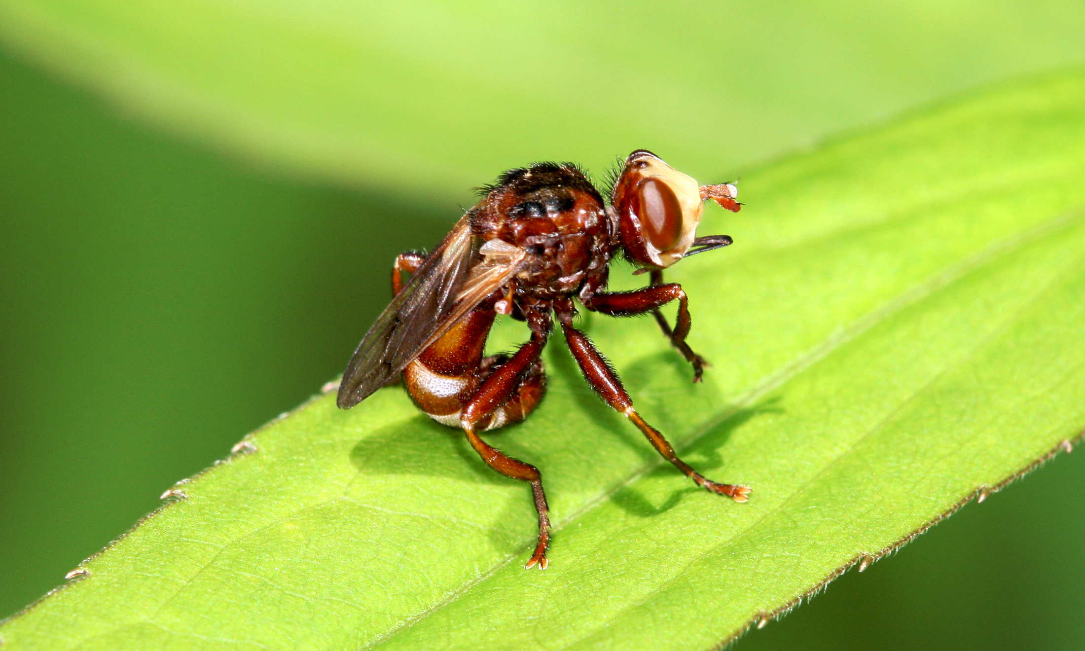 Description: (Sicus ferrugineus) There is no english translation for this species, maybe you can say thick-headed fly . It places his eggs onto the bumblebees torso, then the bumblebee carries the egg to his hive and the eclosing larvaes are feed upon the inventory